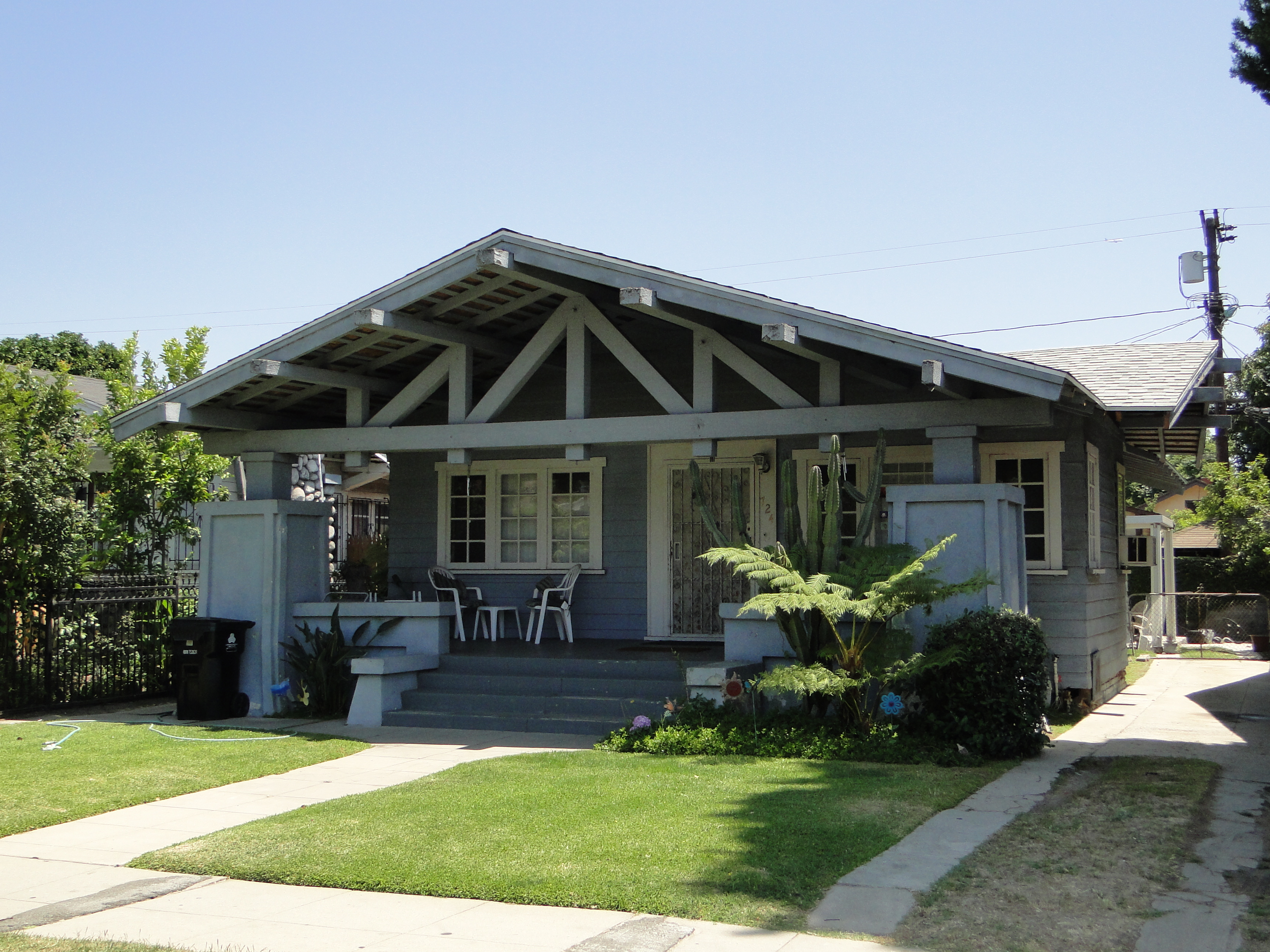 Ivie Anderson House — historic California Bungalow at 724 E. 52nd Place, South Los Angeles, California. Within the 52nd Place Historic District, on the National Register of Historic Places in Los Angeles. Built between 1911 and 1914 by the Tifal Brothers.